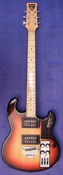 Photograph of Shergold Modulator Guitar from 1976. The electronics (the oblong grey panel on the guitar body) can be interchanged by undoing a thumb screw in the centre of the panel. Seven standard modules were available.